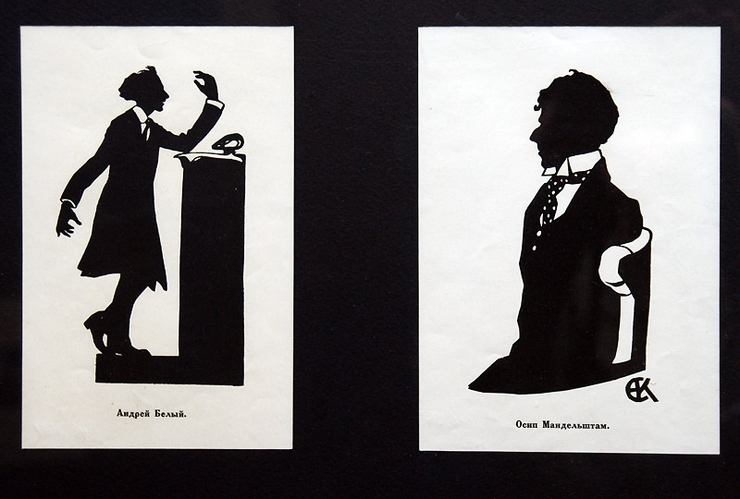 Елизавета Кругликова. Андрей Белый - Осип Мандельштам